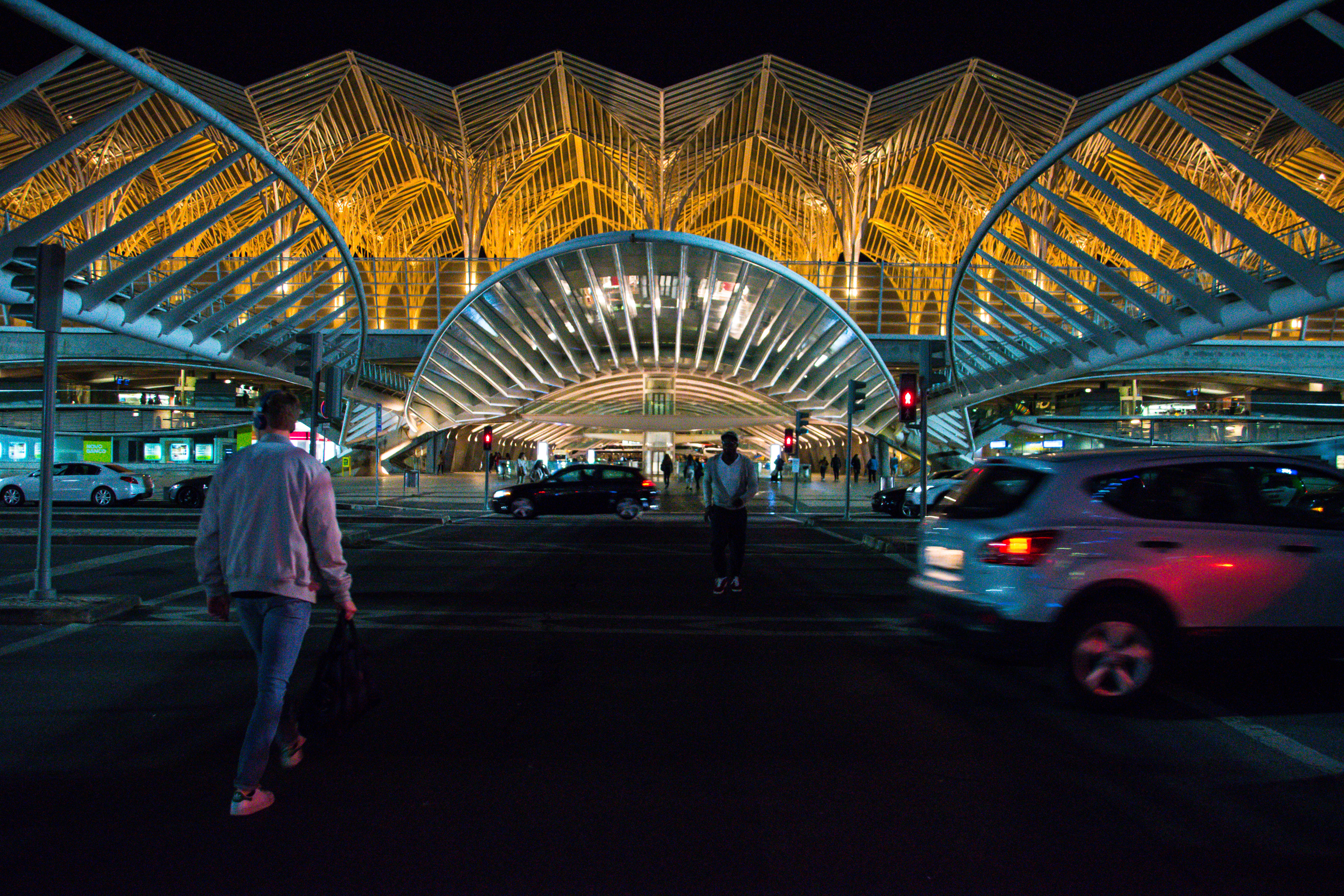 Gare do Oriente train station, Lisbon, Portugal